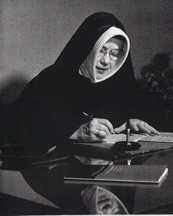 Sister O'Byrne working late in her office